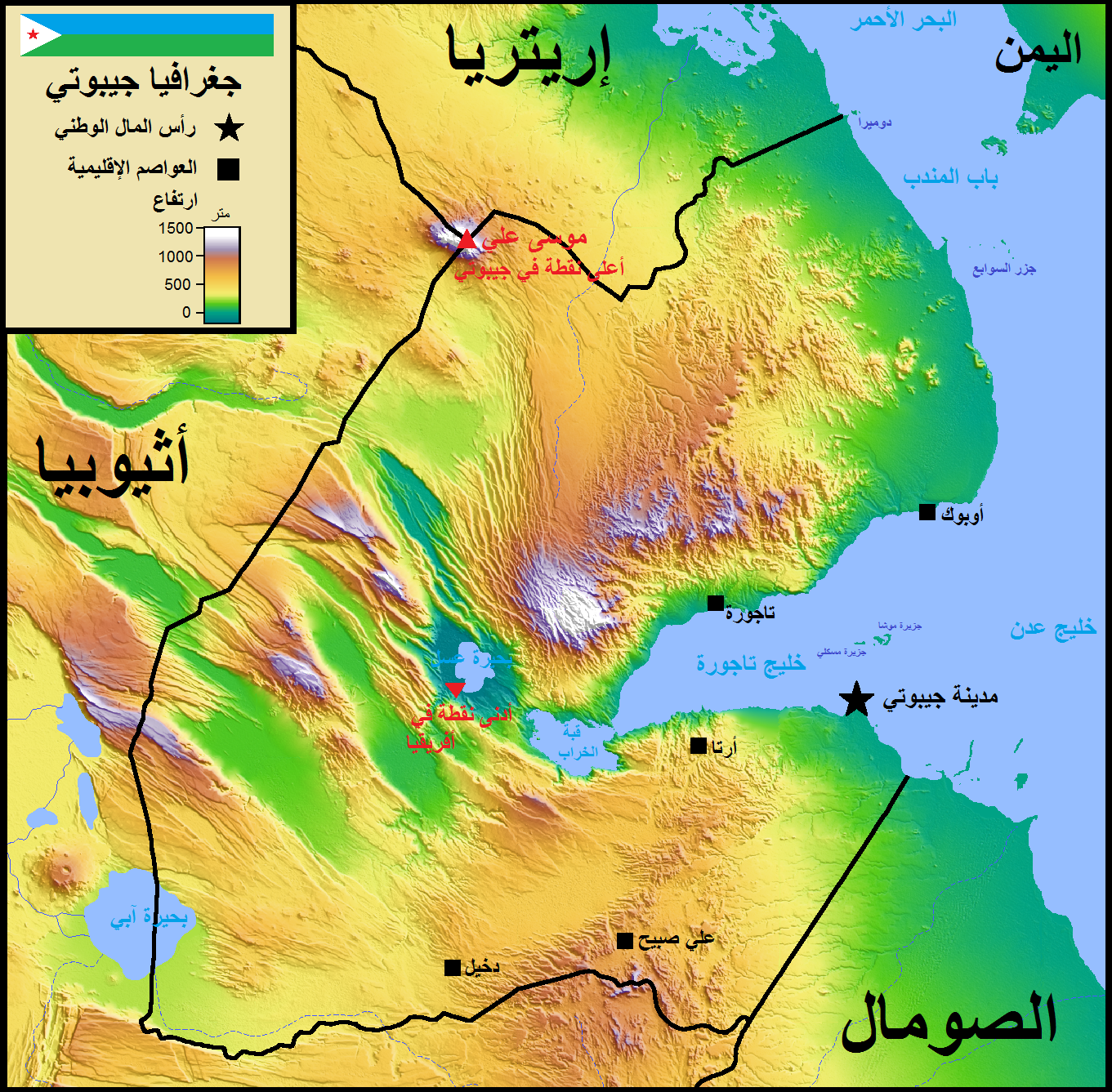 Map of Djibouti in Arabic